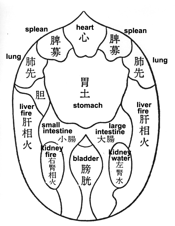 Mubun-style abdominal diagnosis based on Shindō hiketsushū. 1685